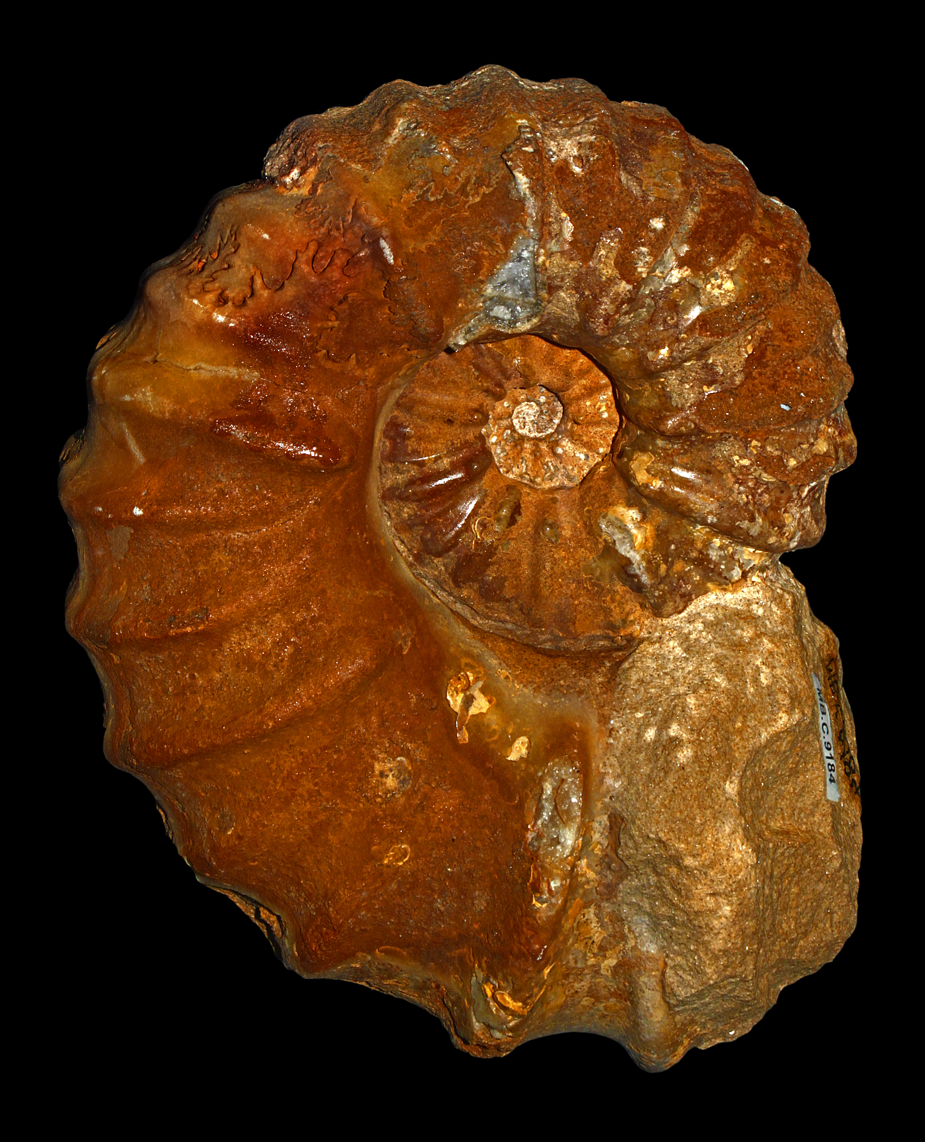 Diameter about 20 cm; Cenomanian, Upper Cretaceous; St. Carre, France; Museum für Naturkunde Berlin.